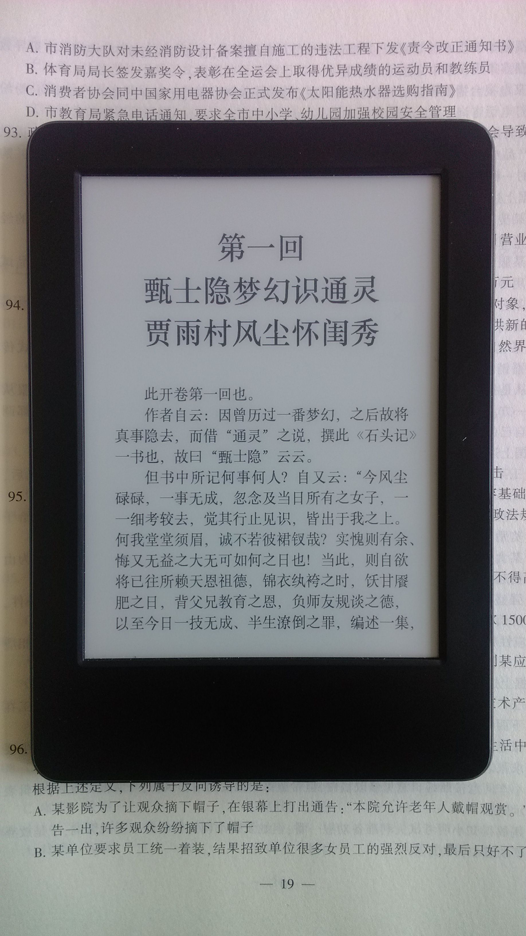 Kindle WP63GW，which is only sold in China and Japan.